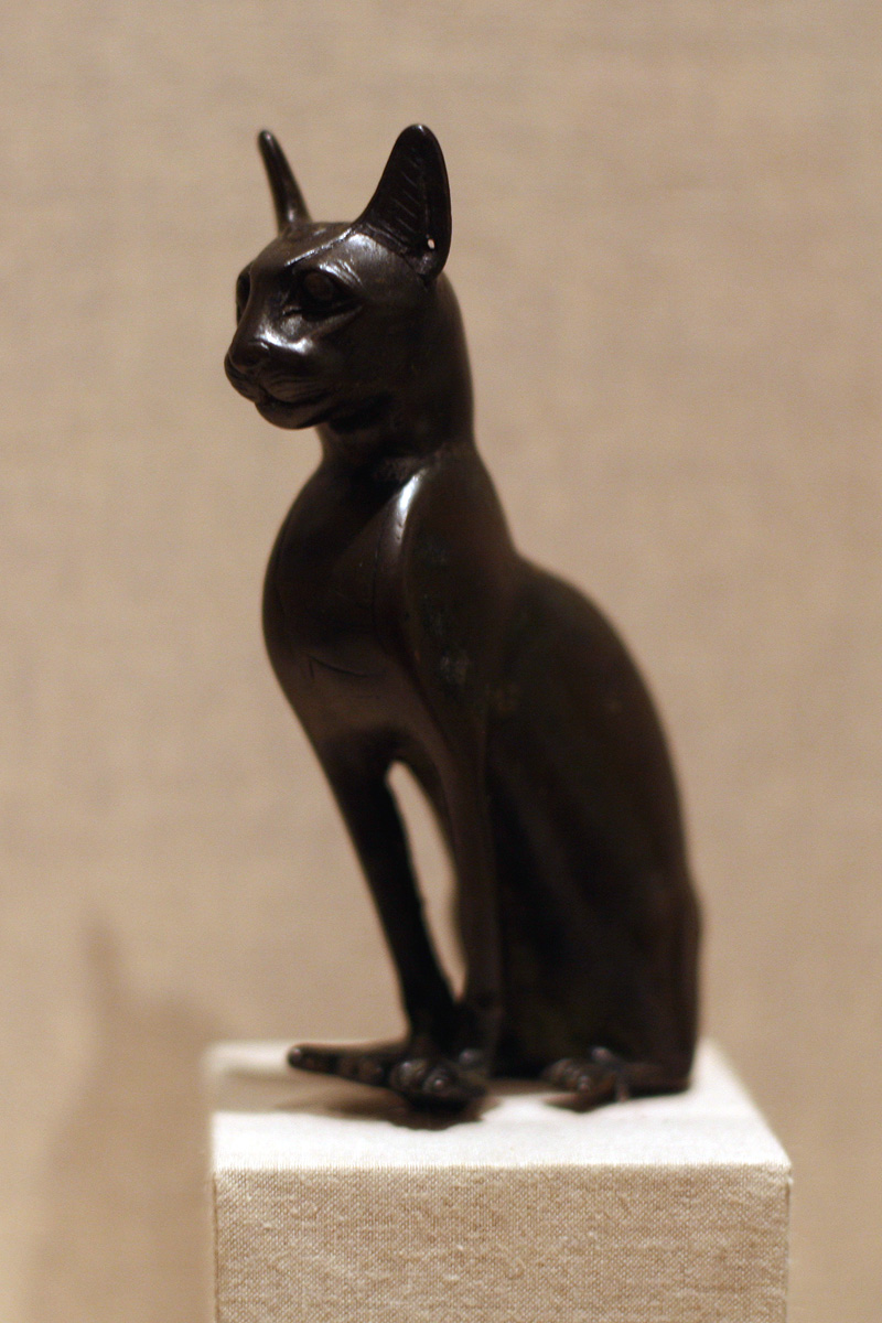 Cat, ca. 664-342 B.C.E. Bronze, hollow-cast. Brooklyn Museum, Gift of Alice Heeramaneck, 78.243.